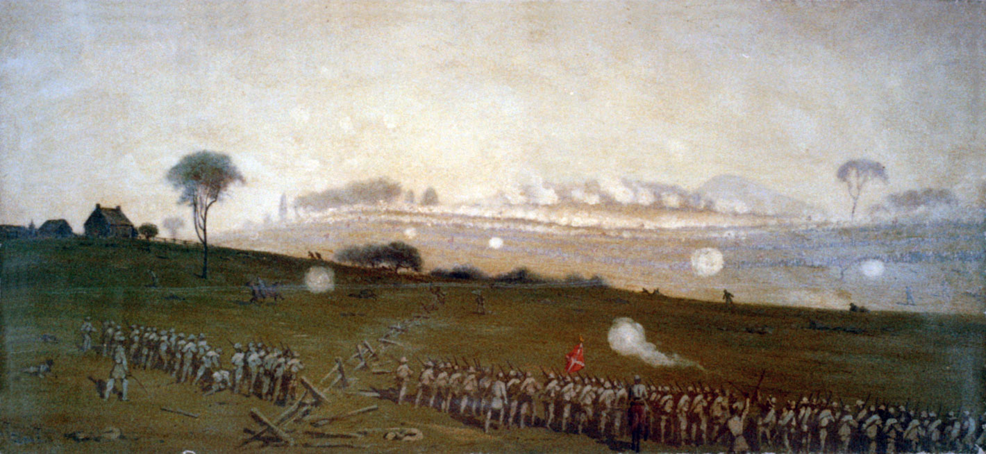 TITLE: Picketts charge from a position on the Confederate line looking toward the Union lines, Zieglers grove on the left, clump of trees on right / Edwin Forbes. MEDIUM: 1 painting on canvas : oil. FORMAT: Oil paintings Color American 1860-1900.